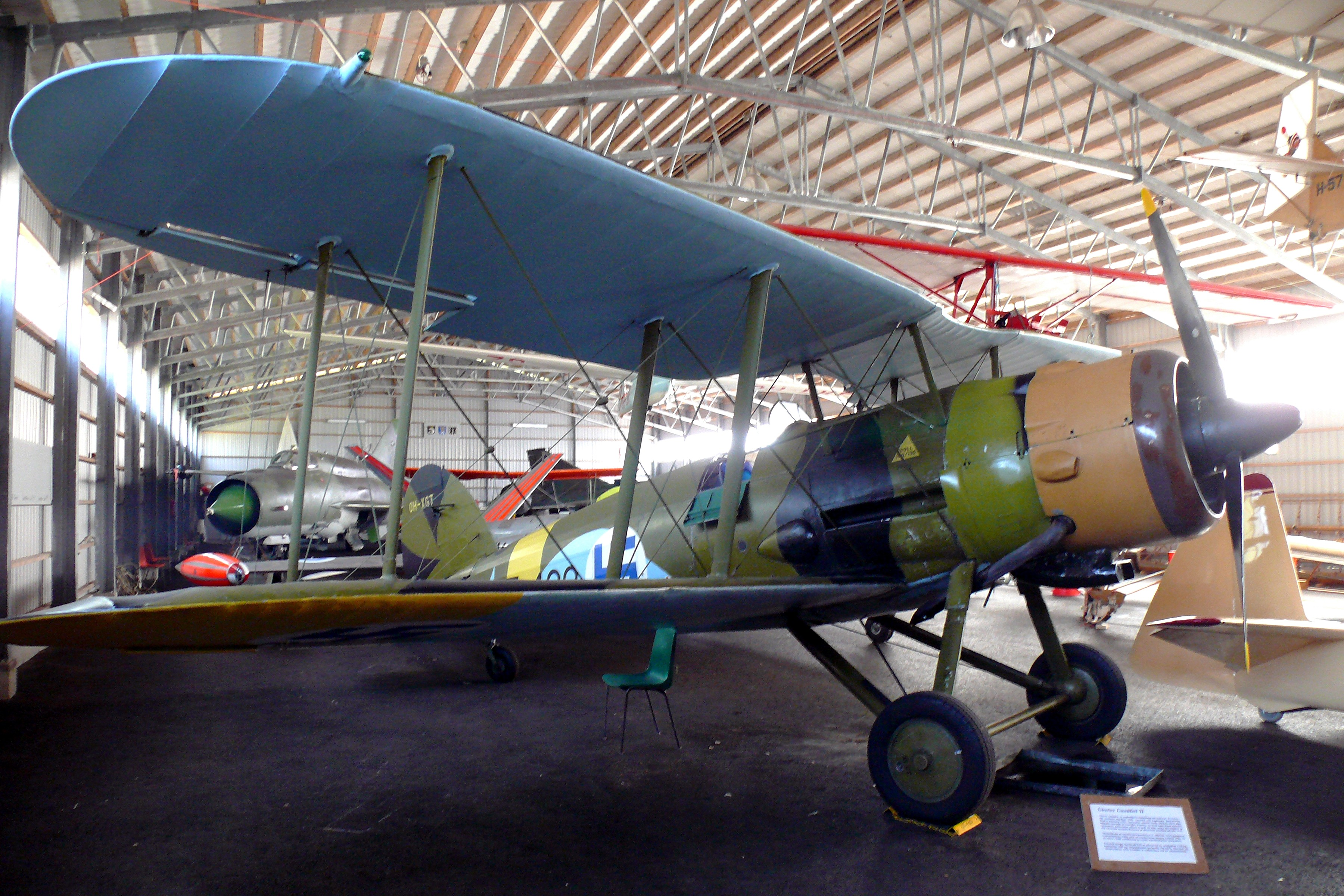 Gloster Gauntlet II fighter (GT-400) in the Aviation Museum of Karhula flying club. The original Bristol Mercury is substituted by 520 hp Alvis Leonides.